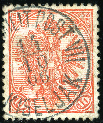 Stamp of Bosnia and Herzegovina, 10 kreuzer issue 1900, cancelled K und K MILIT. POST VII - KISELJAK in 1906.